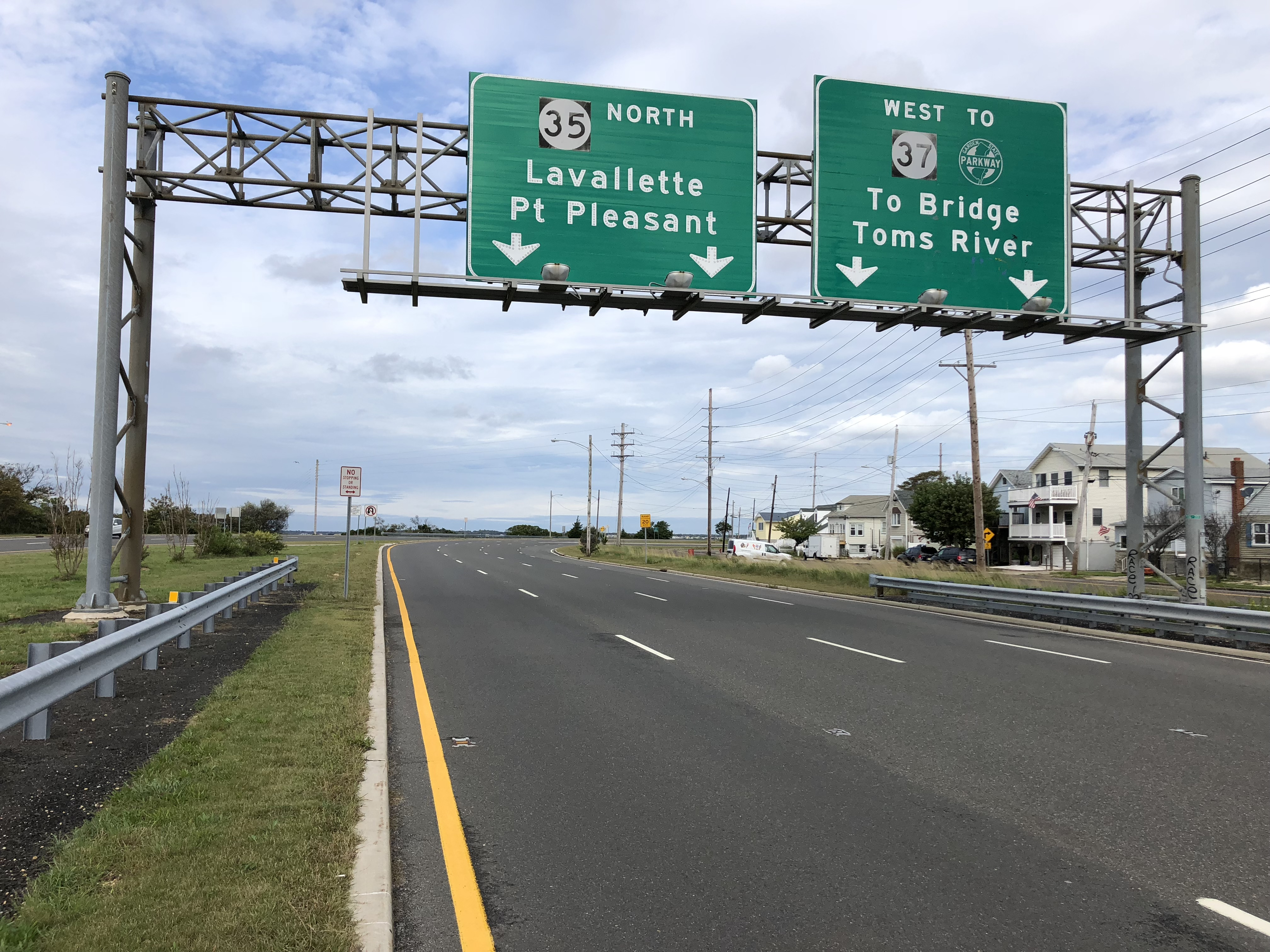 View north along New Jersey State Route 35 at Barnegat Avenue in Seaside Park, Ocean County, New Jersey